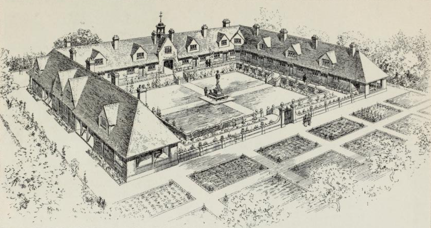 Overhead illustration of Sidney Hill Cottage Homes by Thomas Raffles Davison looking towards the quadrangle and sundial from the Mendip Hills